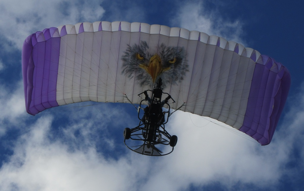 Eagle-PoweredPC